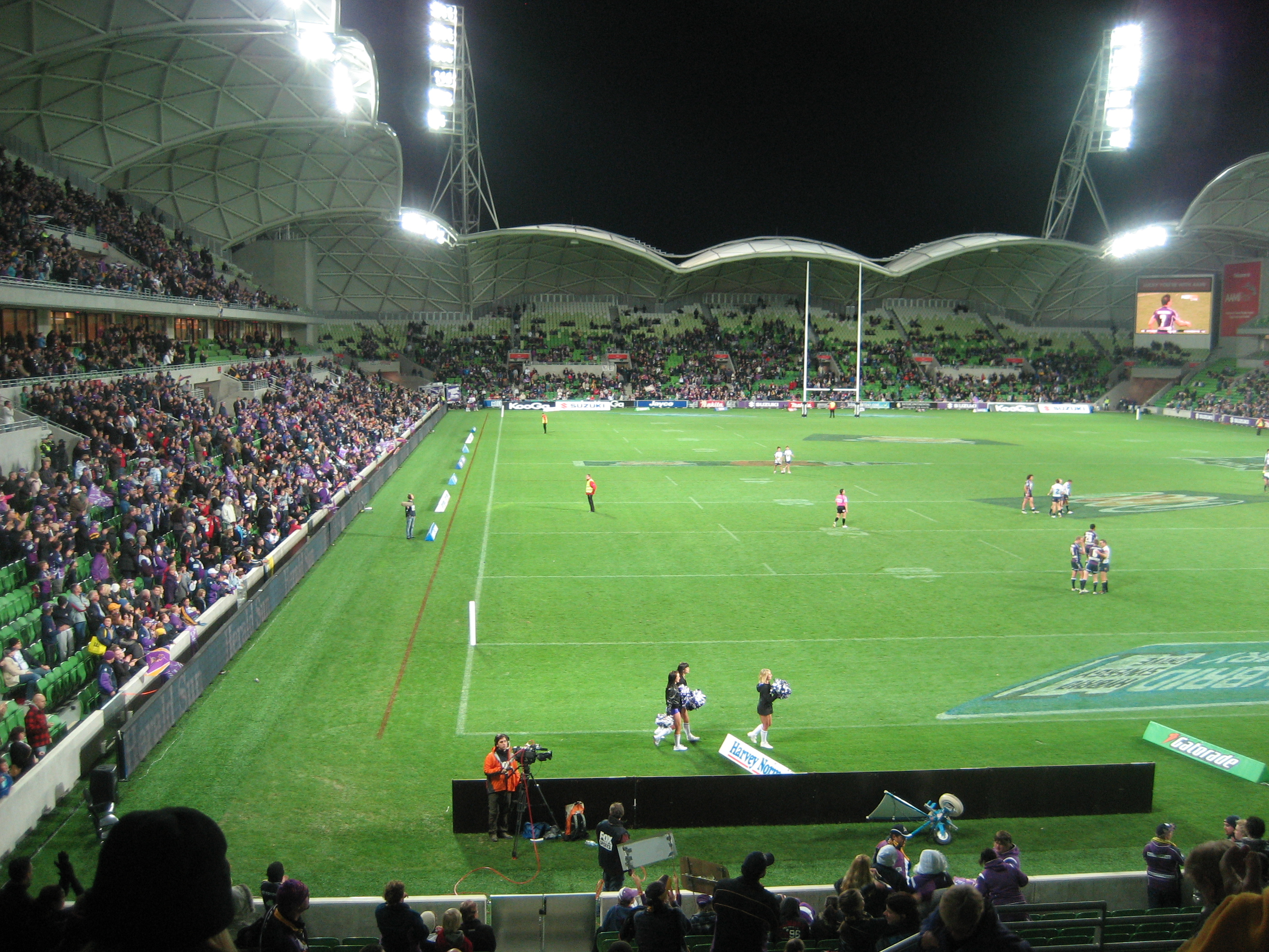 AMMI Park from the southern end